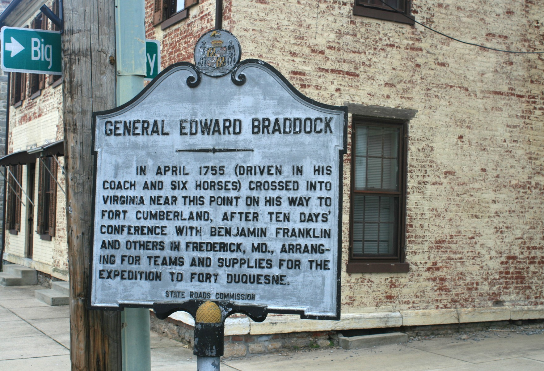 Braddock marker in Sharpsburg, MD